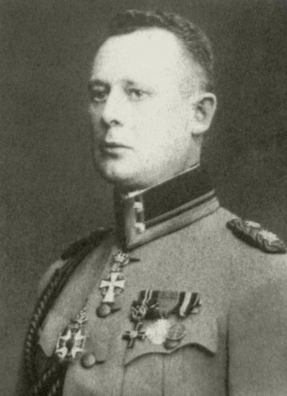 Picture of V.A.M. Karikoski, Finnish officer